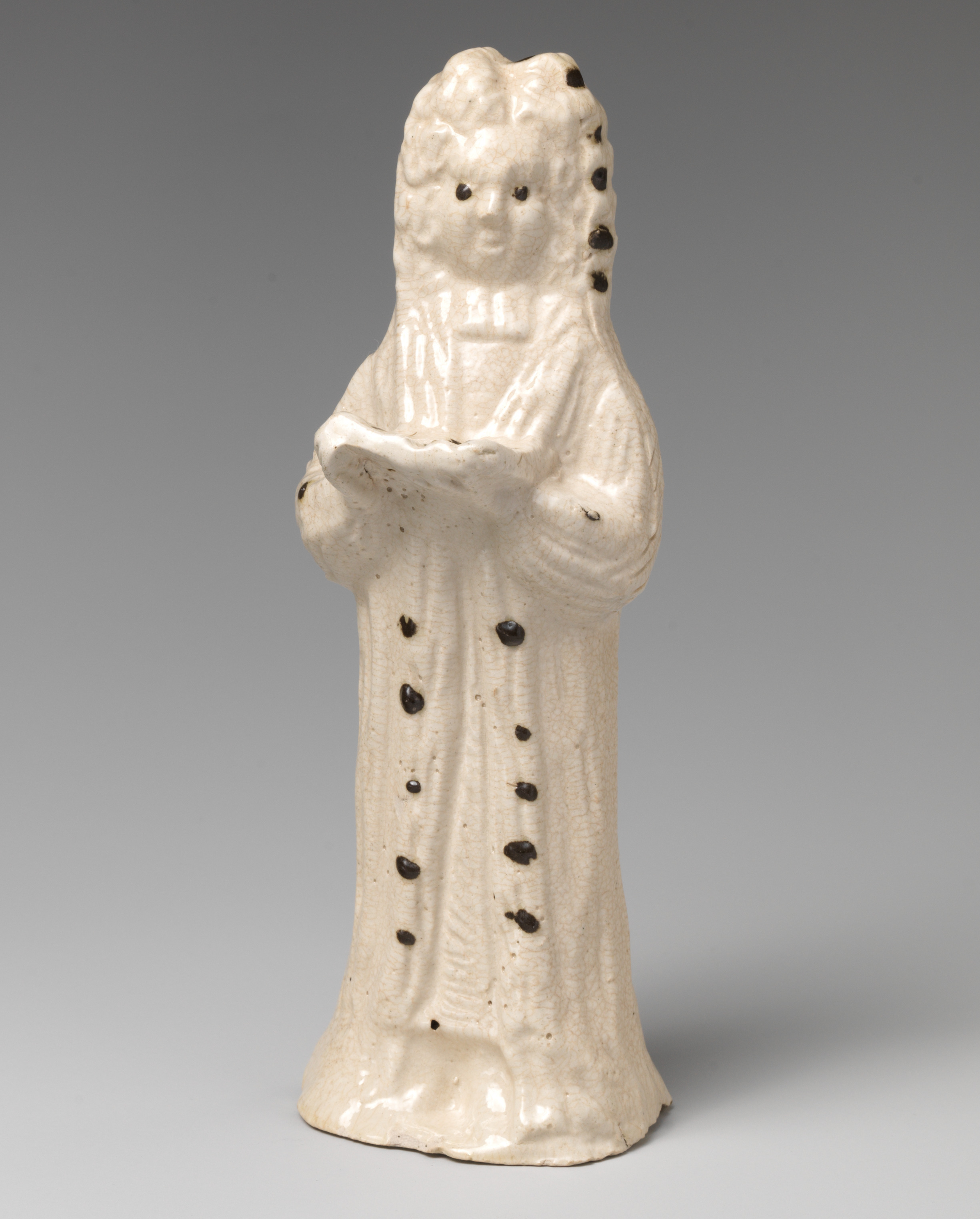 British, Staffordshire; Figure; Ceramics-Pottery